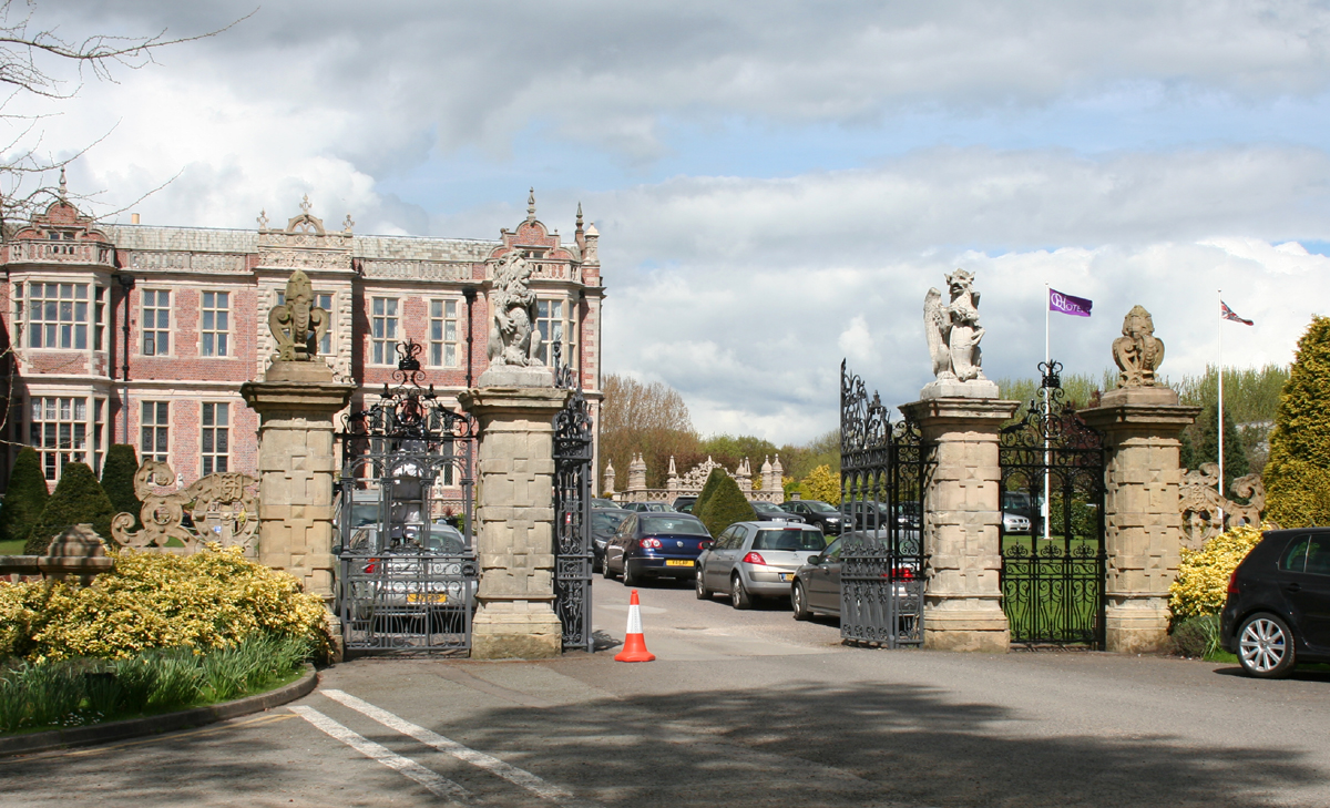 Entrance gates of Crewe Hall, near Crewe, Cheshire